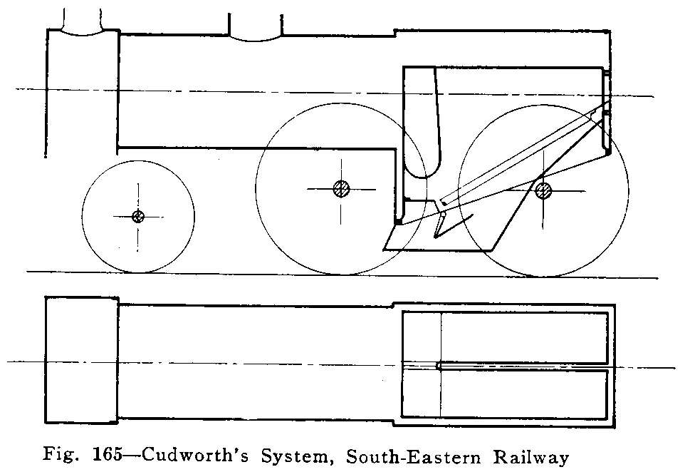 Vertical and horizontal longitudinal sections of James I'Anson Cudworth's design for locomotive boiler and firebox suitable for burning coal